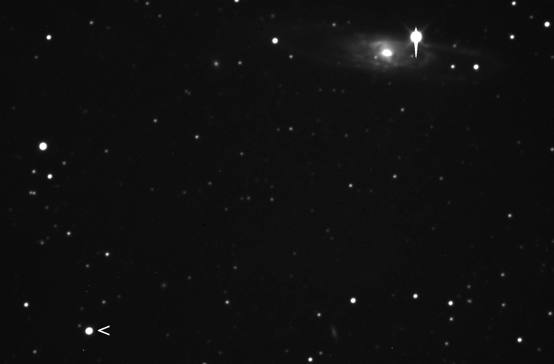 6 minute exposure of asteroid 511 Davida with a 24" telescope. Davida is about apparent magnitude 12.5 in this image taken at 2010-01-15 11:45 UT. The galaxy NGC 5792 is visible to the upper right of Davida.